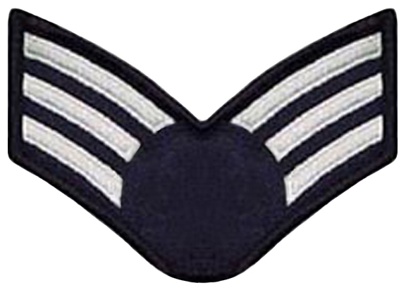 Old style USAF Senior Airman Rank insignia.